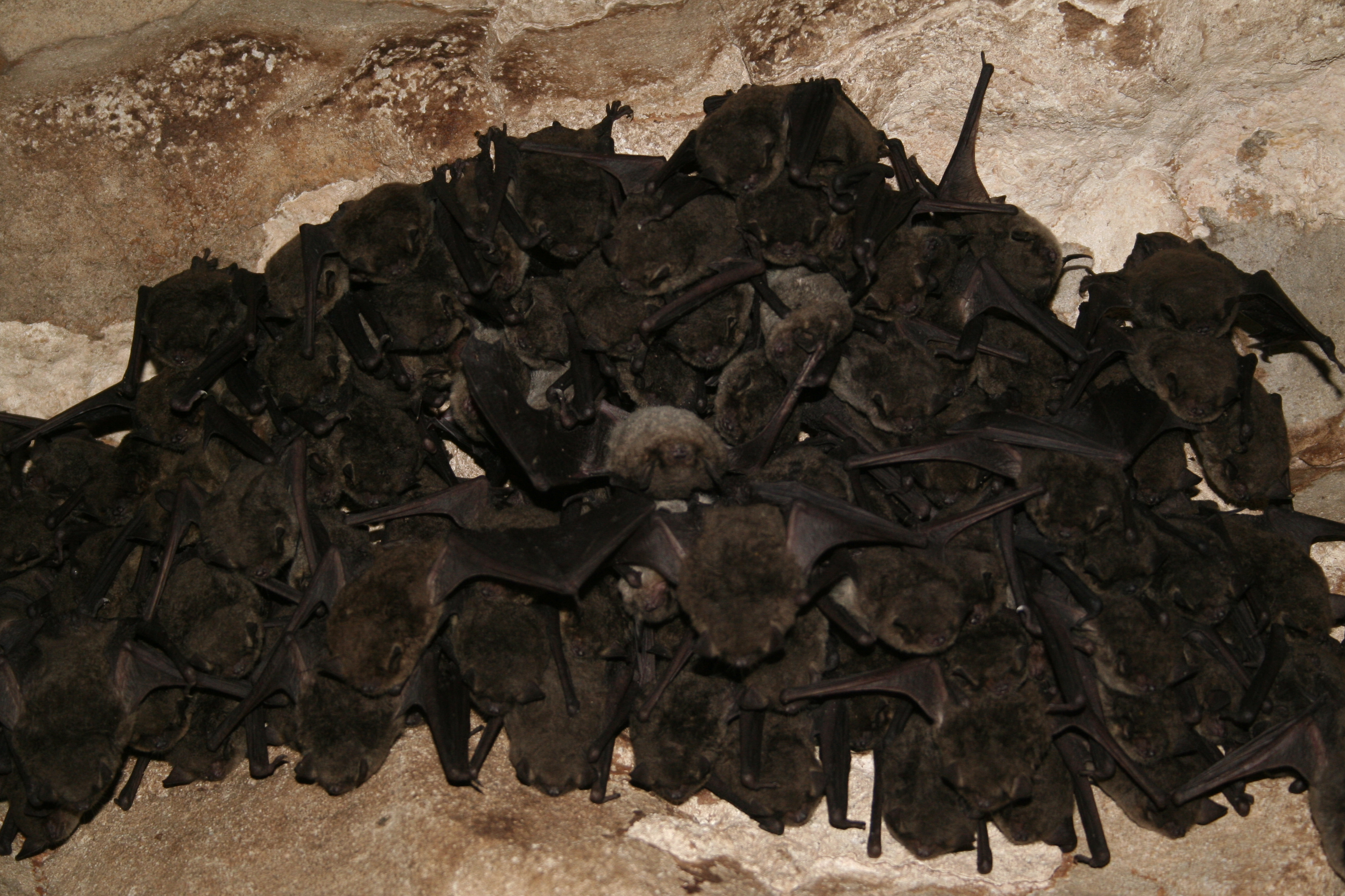 Cluster of hibernating gray bats (Myotis grisescens) credit: USFWS/Ann Froschauer